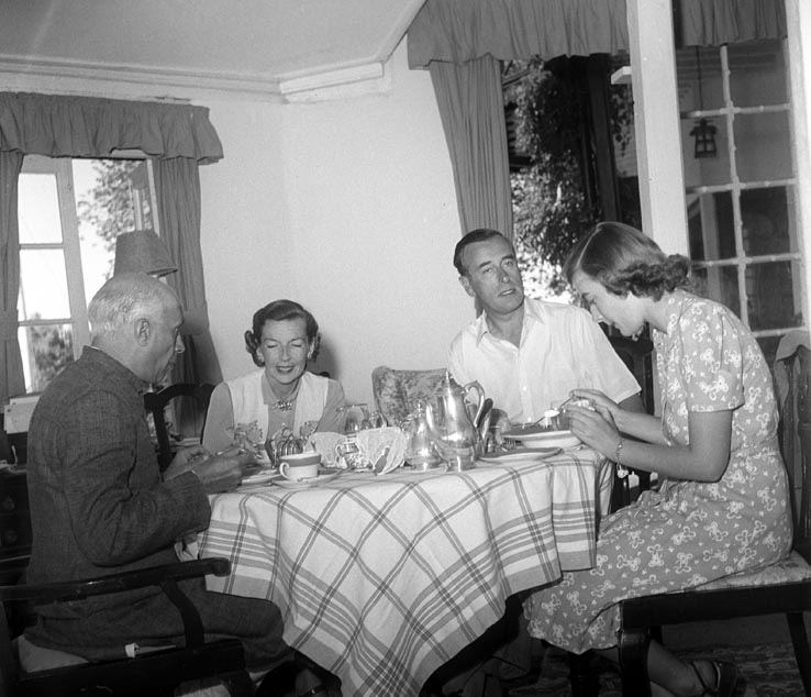 The Prime Minister Shri Jawaharlal Nehru's and Their Excellencies the Earl & Countess Mountbatten enjoying tea at Vicerigal Lodge, Simla, during a holiday in May 1948.